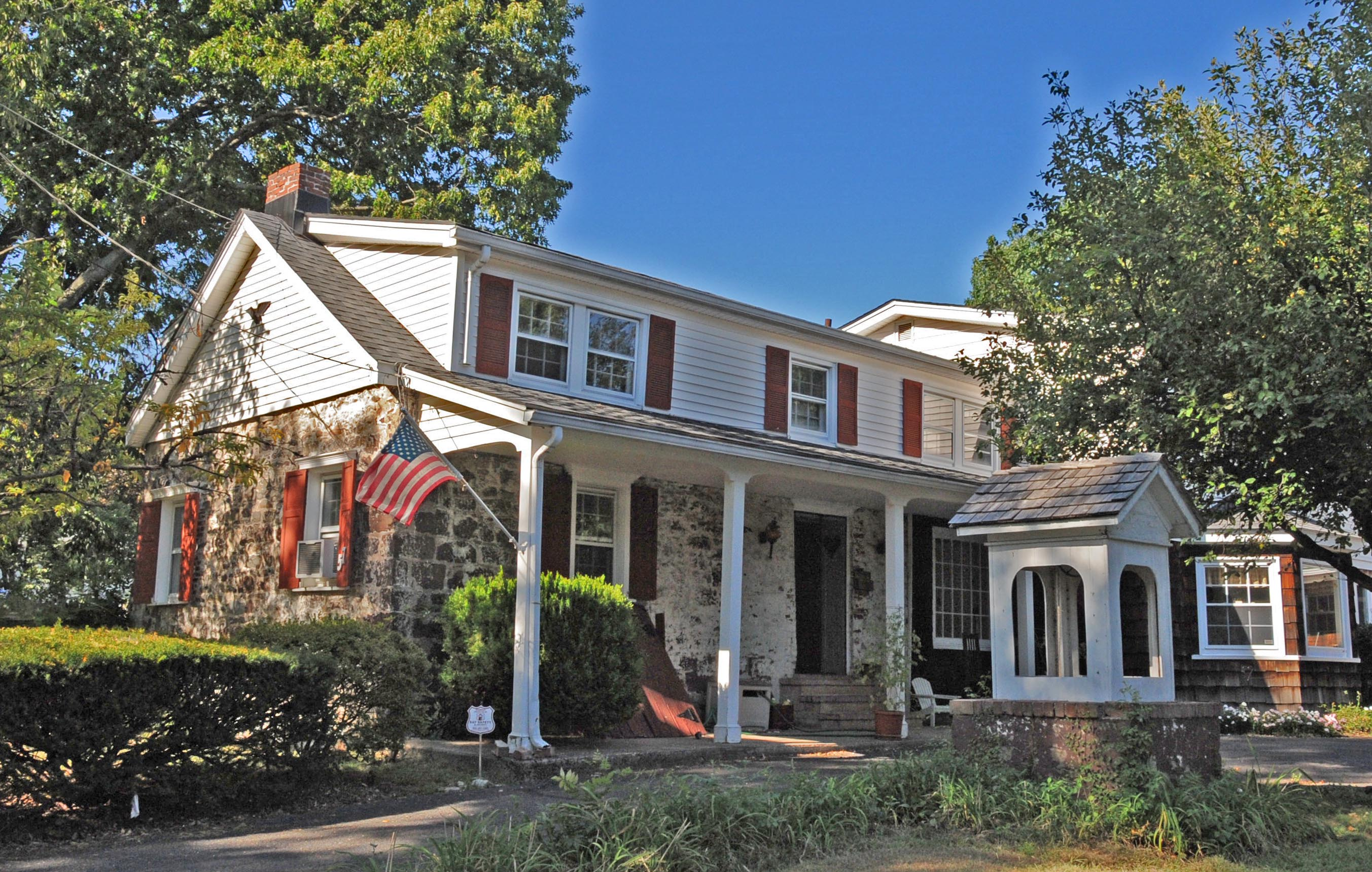 BUILT IN 1797 - NO ADDITIONAL INFORMATION